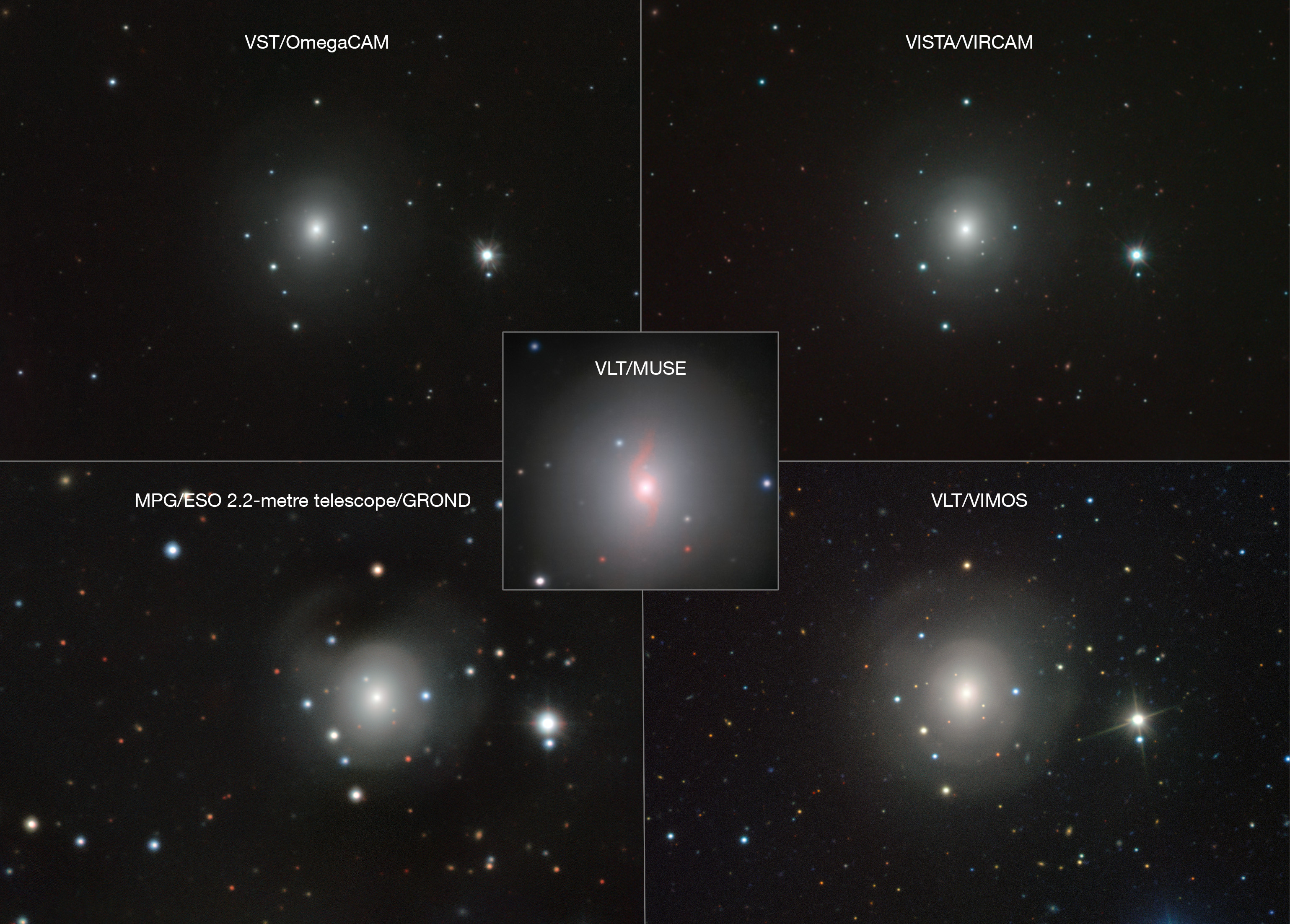 This composite shows images of the galaxy NGC 4993 from several different ESO telescopes and instruments. They all reveal a faint source of light close to the centre. This is a kilonova, the explosion resulting from the merger of two neutron stars. This merger produced both gravitational waves, detected by LIGO–Virgo (GW170817), and gamma rays, detected by Fermi and INTEGRAL in space.